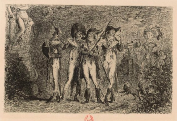 "Les incroyables", illustration for Emmanuel des Essarts, in Sonnets et eaux-fortes, paris, 1869.